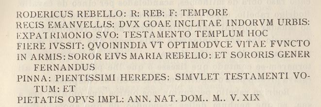 lápide da igreja da Graçqa, Castelo Branco